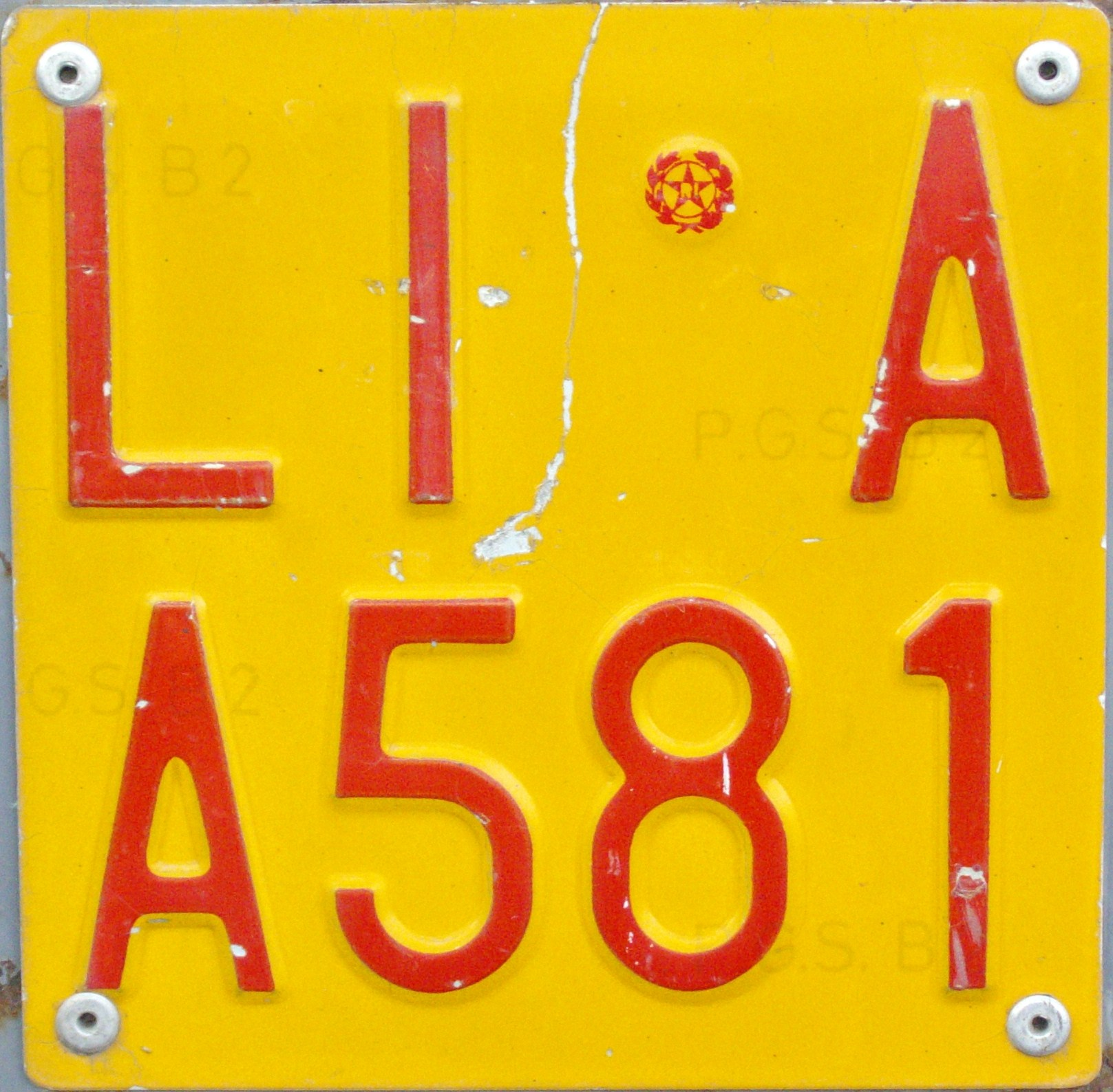 Italy, Vehicle registration plates of Italy. The license plate used by special vehicle for road maintenance.